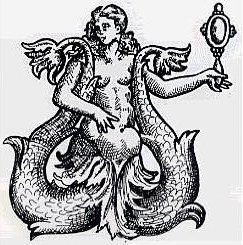 Contemporary illustration of a siren from the Ballet comique de la reine of 1581. The sirens escorted a chariot, designed like a fountain, containing Queen Louise, her ladies, and musicians. The narrative of the ballet, one of the "magnificences" of the age of Catherine de' Medici, mother of Henri III of France, was based on the myth of Circe, who turned men into beasts. This was held to symbolise the state of civil war in France at the time.